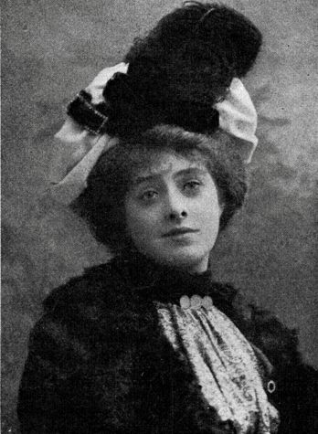 Isabel Jay, in an advertisement for The Emerald Isle in The Sketch, April 24, 1901.